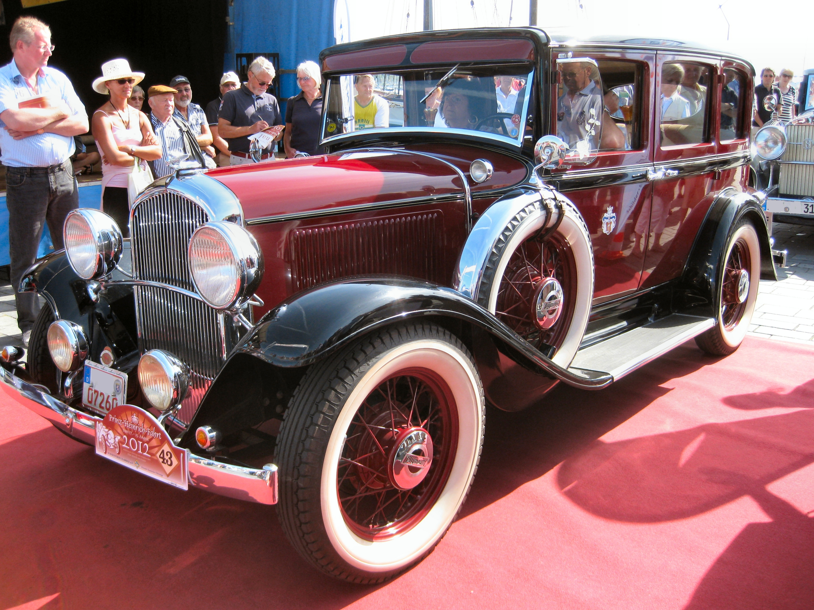 Plymouth PA 4 Door (1931)